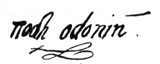 Irish: Signed by Irish Rudd Hugh O'Donnell on the 1601 document